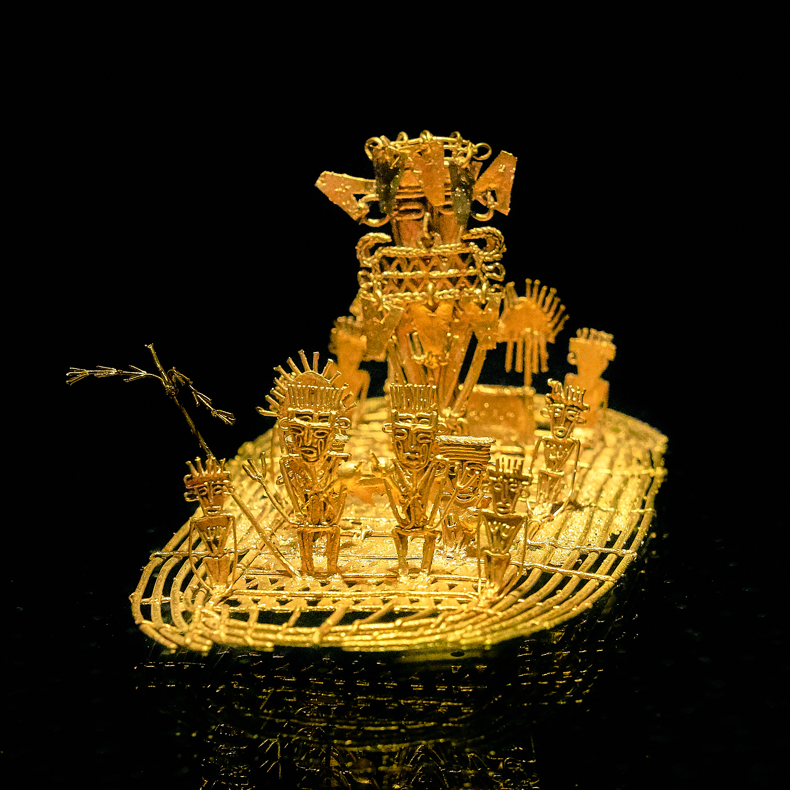 Muisca raft, Gold Museum, Bogotá, Colombia. This raft made of gold was found in Pasca, Cundinamarca, in 1969, and is associated with El Dorado Legend, representing the ceremony that used to take place in Lake Guatavita where the zipa cover his body in gold dust and drop gold and esmerald offering into the lake.